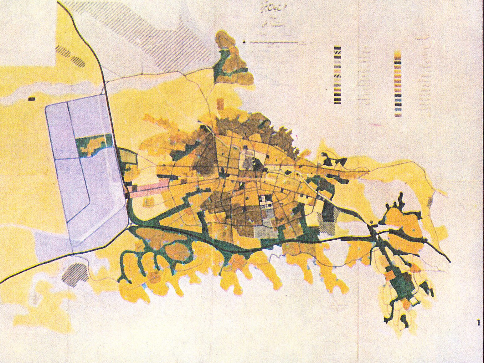 Urban planning, Tabriz, Iran